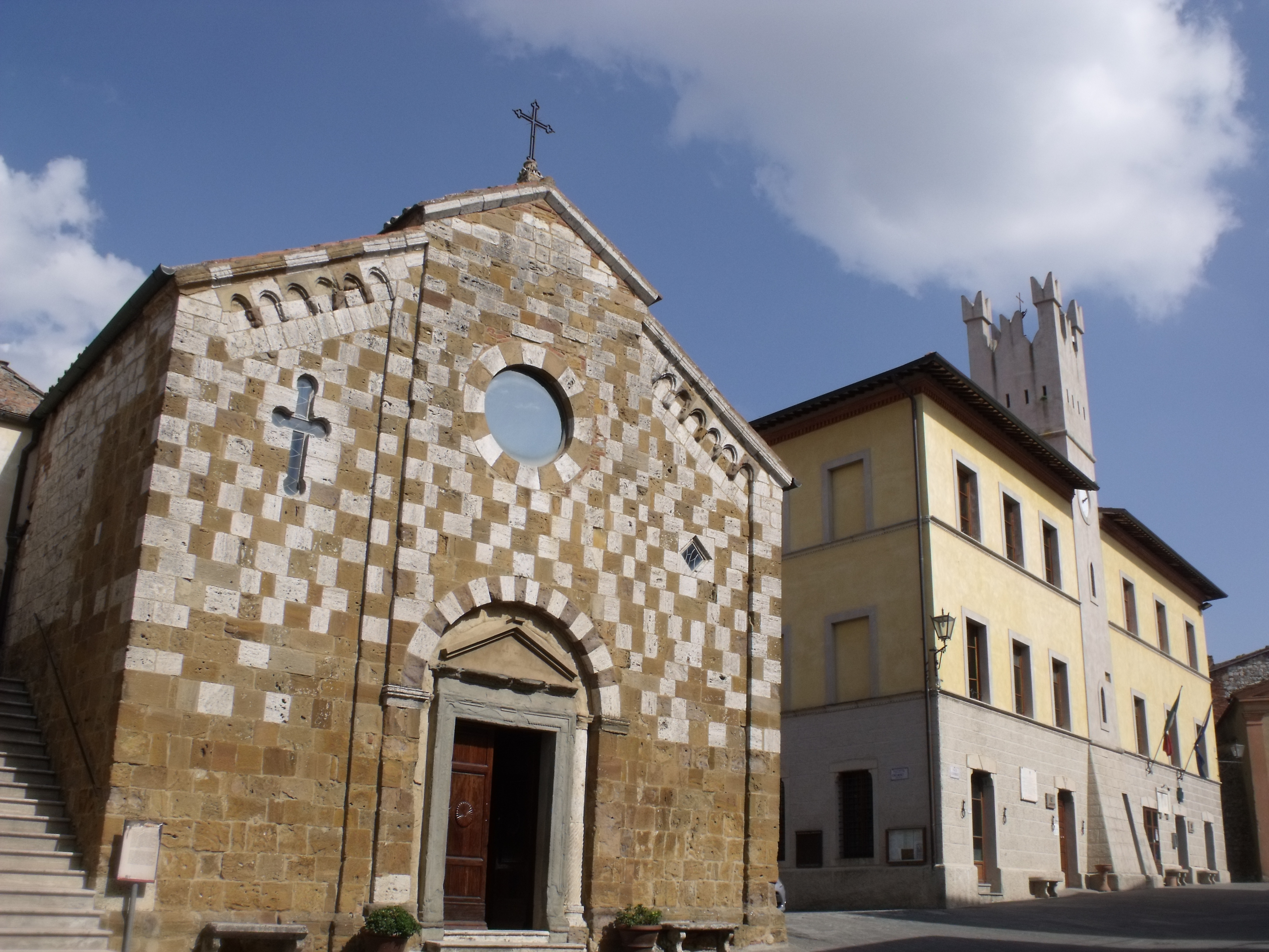 Church Chiesa dei Santi Pietro e Andrea and the Town Hall in Trequanda, Province of Siena, Tuscany, Italy